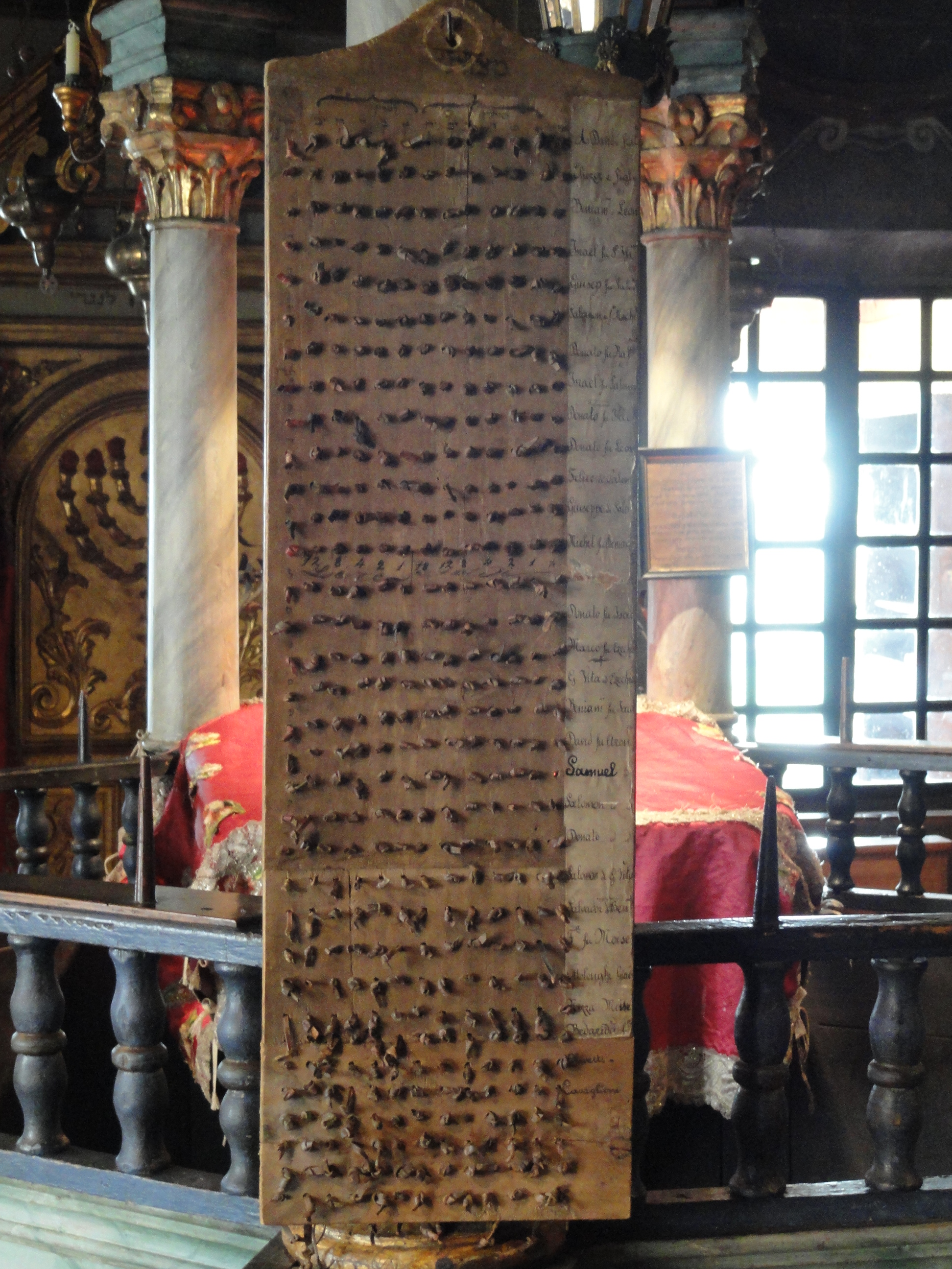 Synagogue of Mondovì (Piedmont, Italy): This wooden plate of the 18 century is used to indicate the donations done on shabbat by the persons reading the Torah. During shabbat, itis forbiden to write.